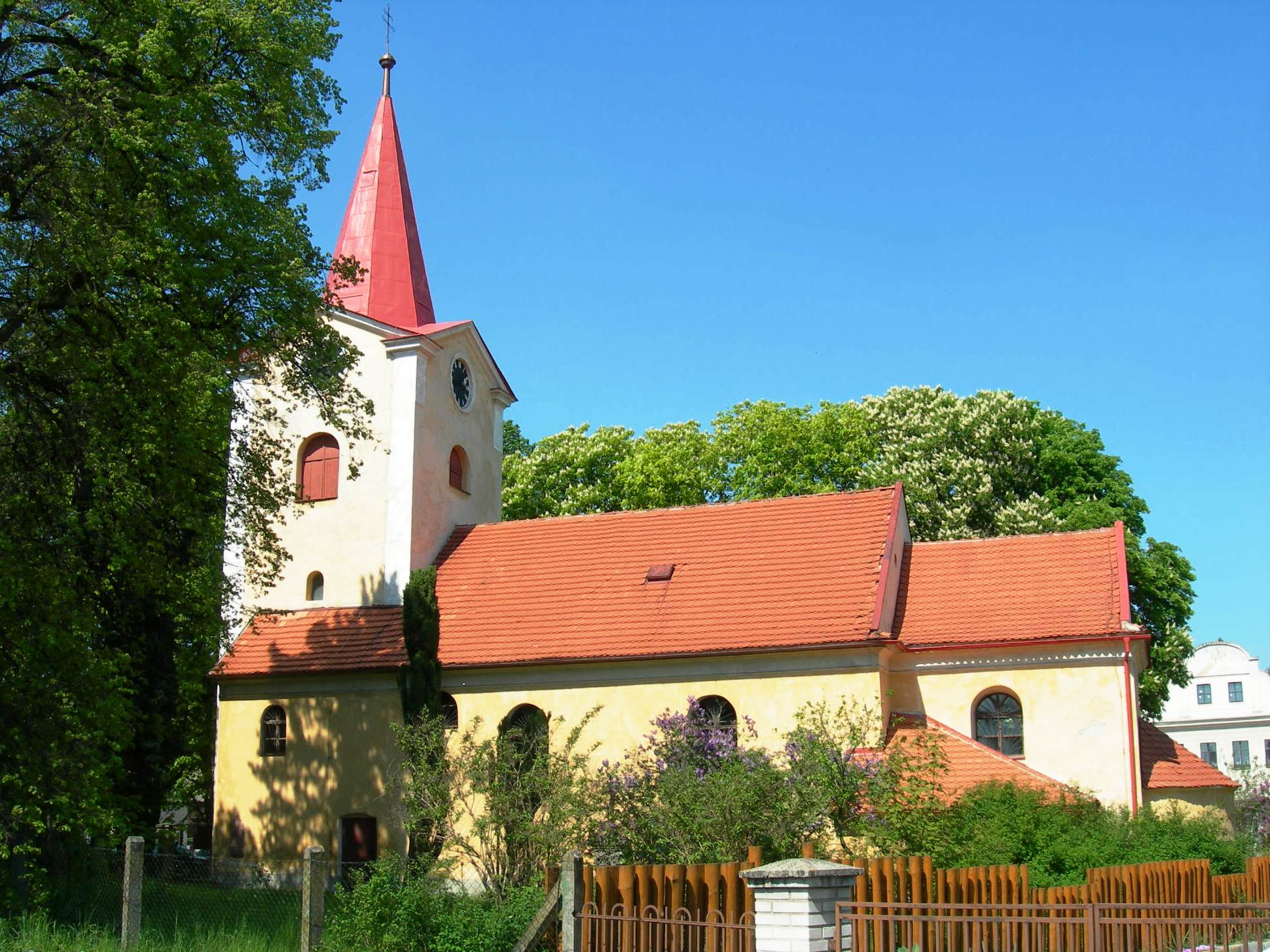 SS. Simon and Jude church in Ondřejov, Prague-East District, Czech Republic.